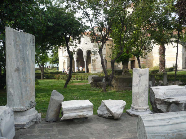 Ayasofya, Trabzon